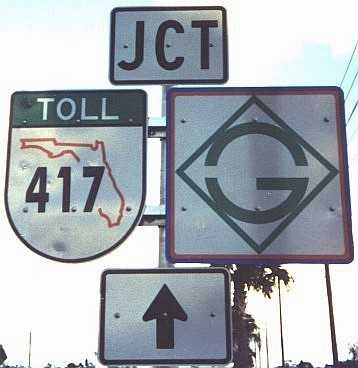 Eastbound on University Boulevard approaching SR 417, taken ca. 1998? by SPUI